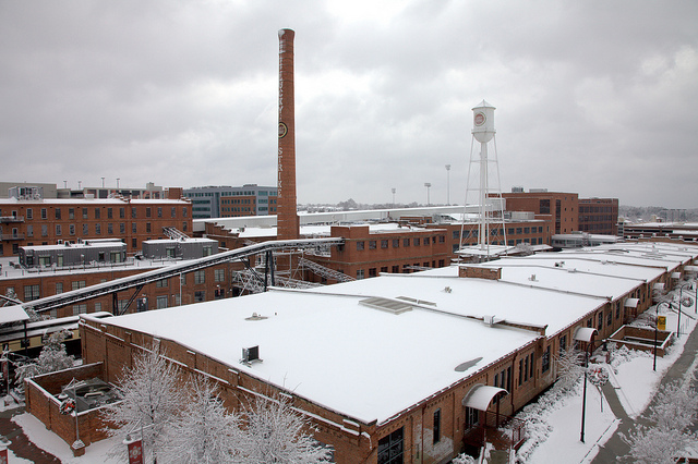 American Tobacco Campus